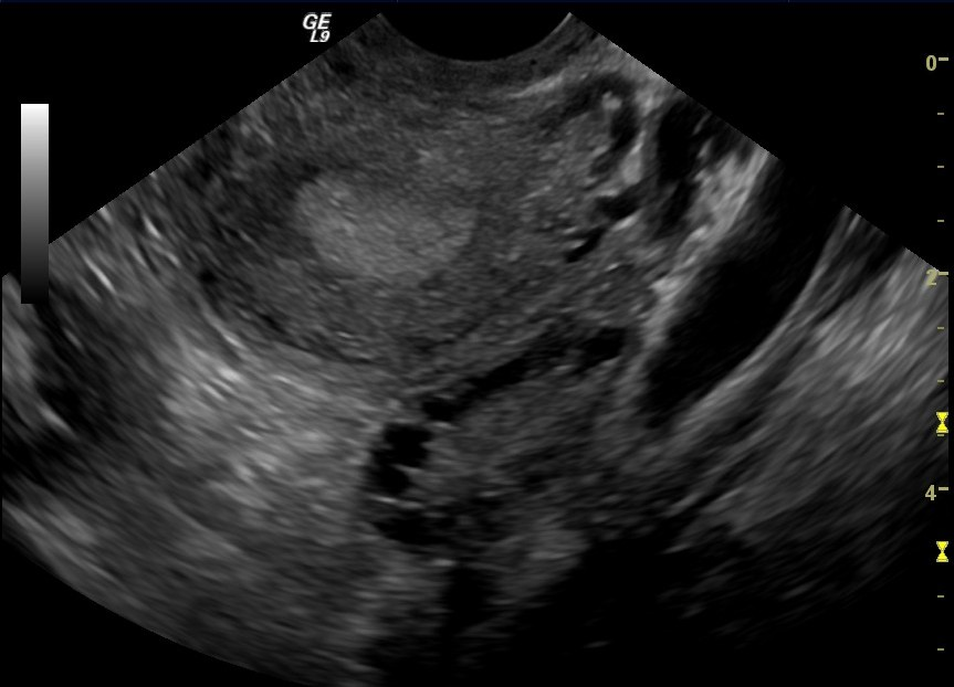 Transvaginal ultrasound scan of polycystic ovary